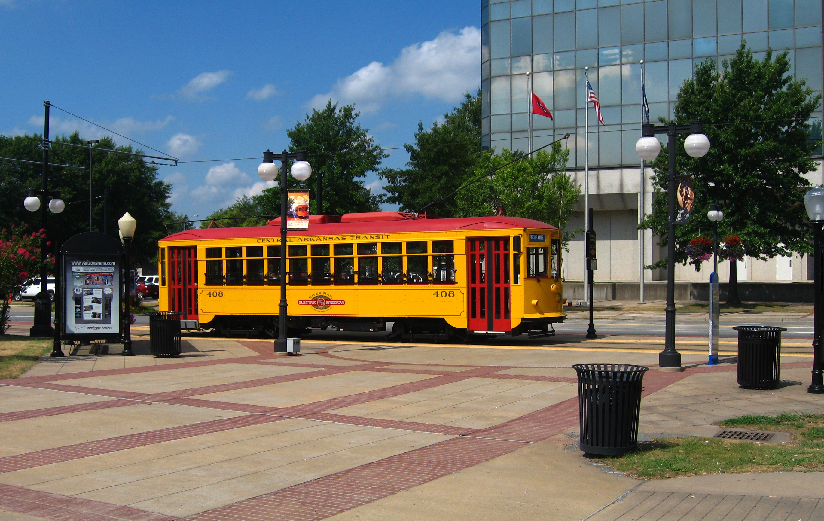 Central Arkansas Transit Authority Blue Line Streetcar(Trolley) #408 at Verizon Plaza station, North Little Rock, AR